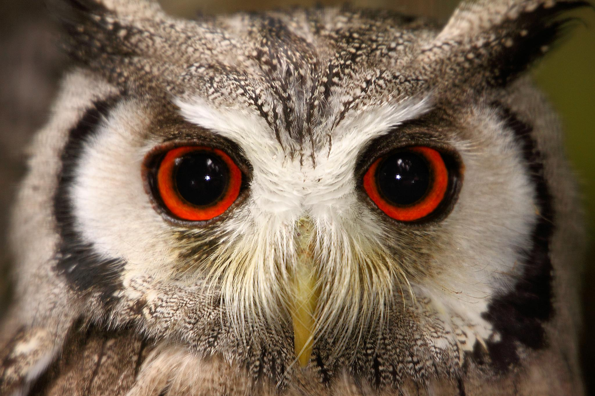 Owl - Cotswold Wildlife Park